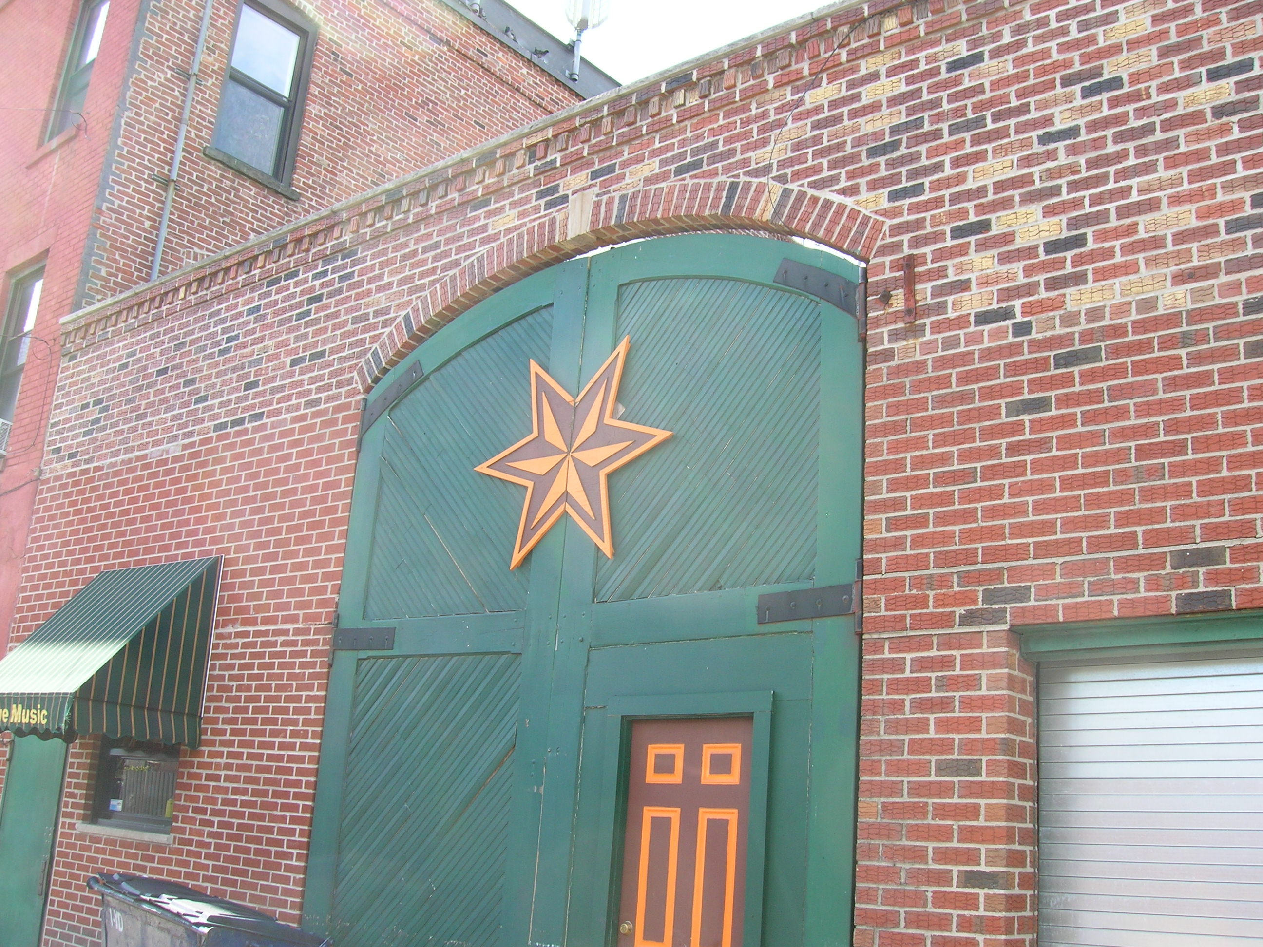 picture of Sixpoint Brewery freight entrance door on Dwight Street in Red Hook, Brooklyn